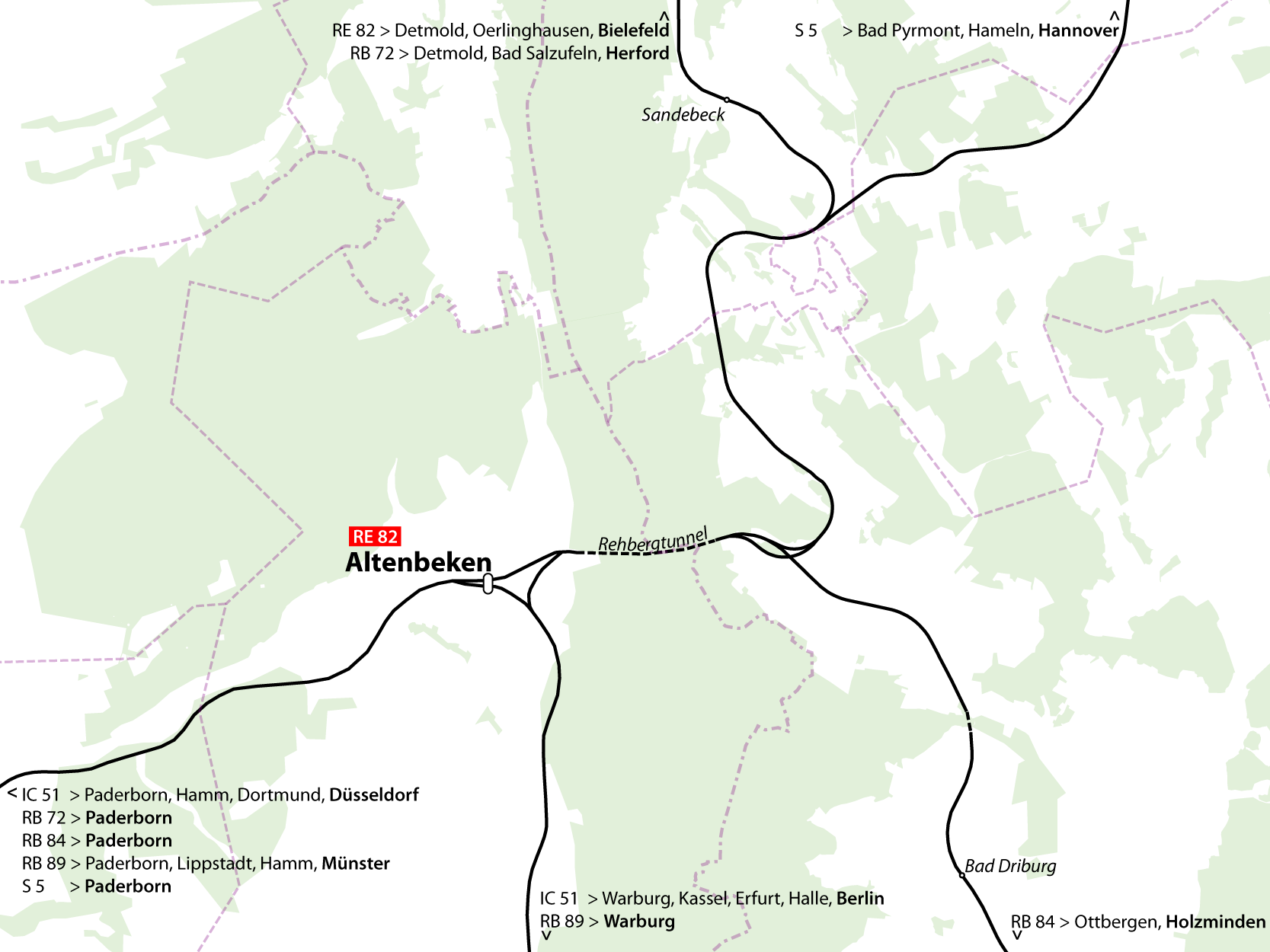 Rail Junction Altenbeken